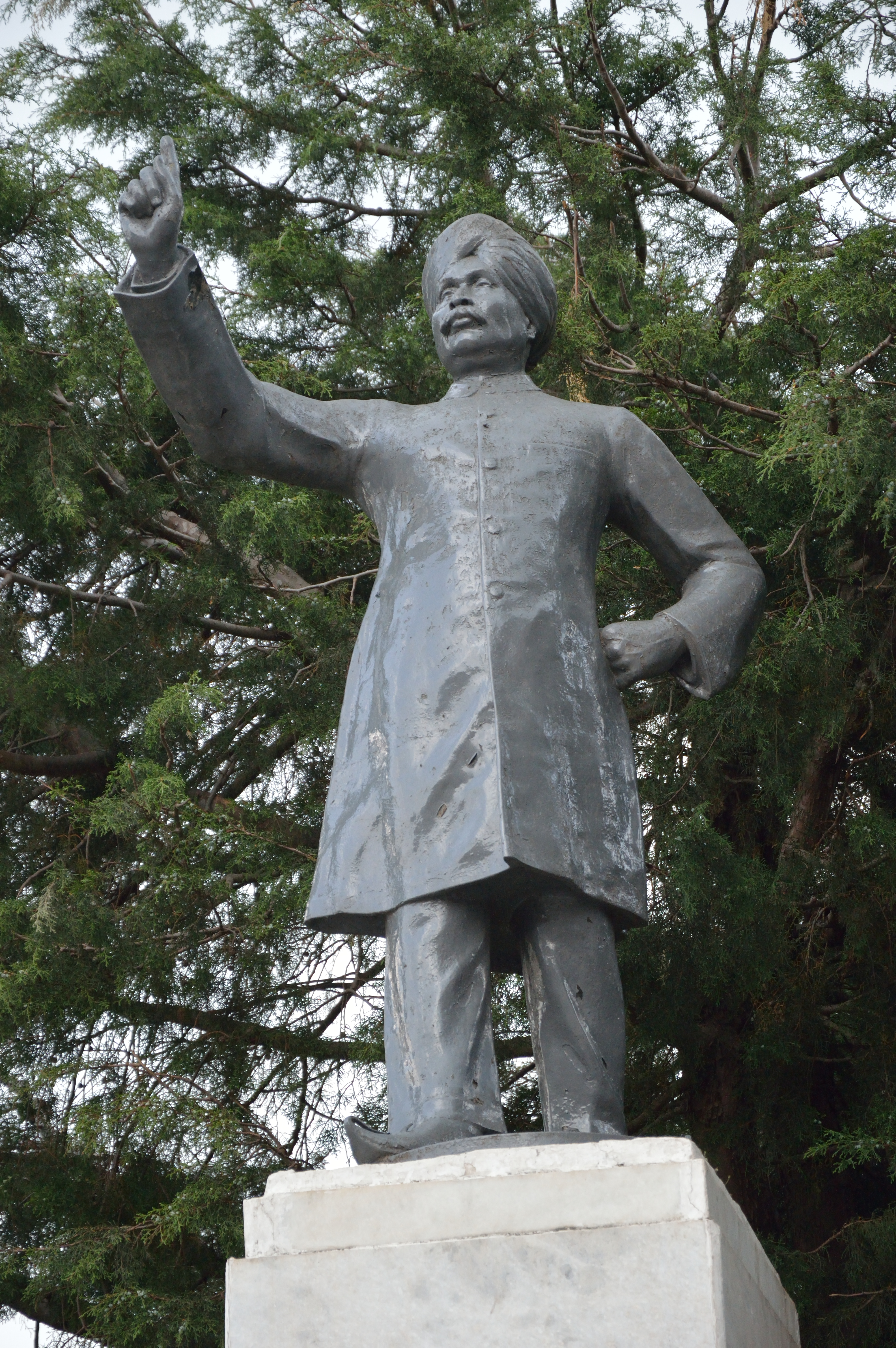 Photographed in Shimla.